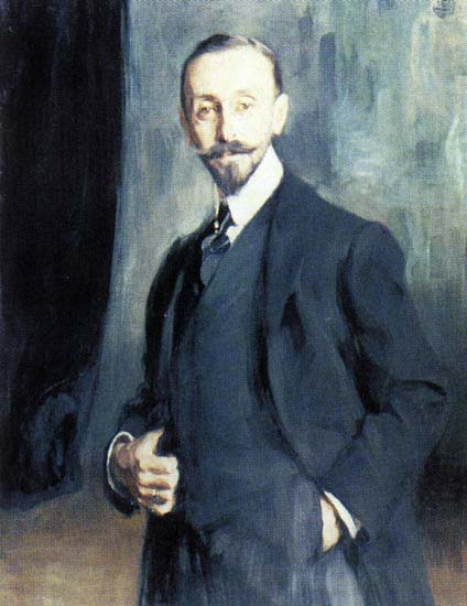 graf Dmitry Ivanovich Tolstoy - (1860-1941) - Hermitage director